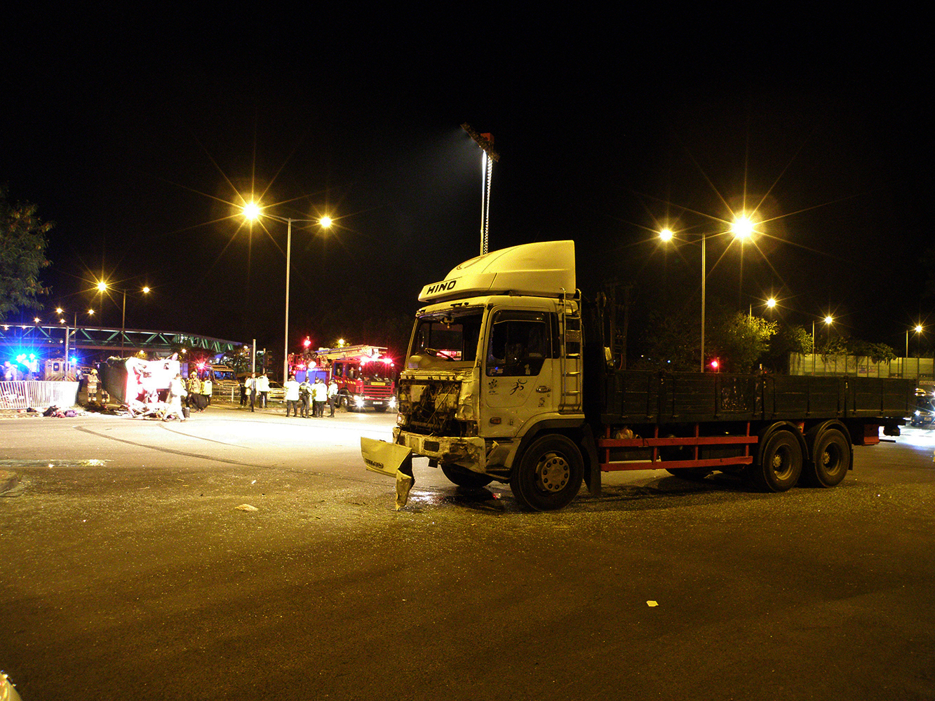 Minibus route 608 and truck collision that cause 5 died and 13 injured in Kam Tin, Hong Kong. This is the worst minibus accident in local history, the picture shows damage of the truck (right) and damage of the minibus (far left).